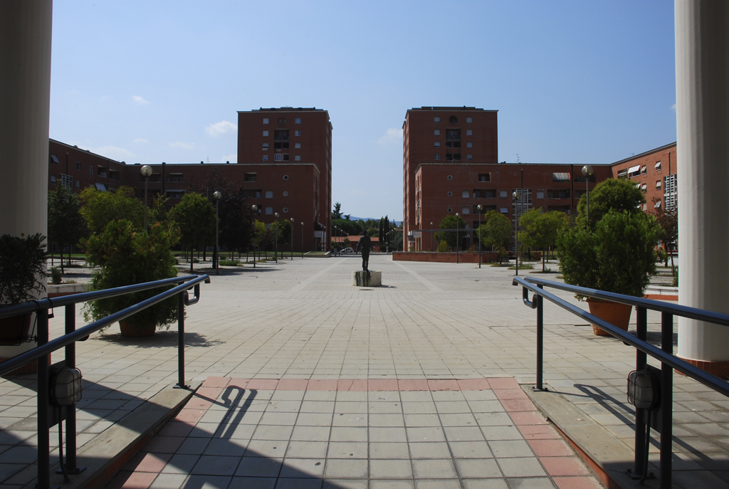 Cavallaccio RC10 Palace, Florence, Italy. Courtyard and Towers.